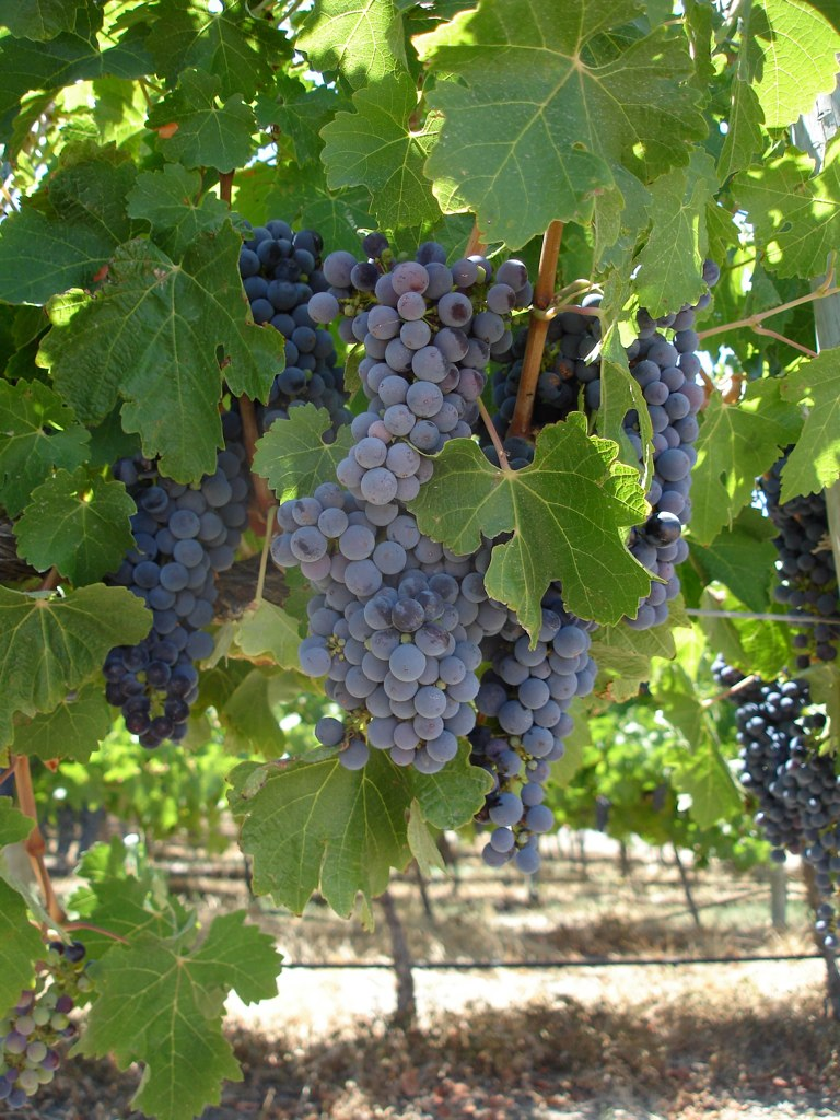 Australia Red Grapes